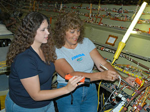 Melissa Jones (left), a United Space Alliance employee, and her mom, Sue Hutchinson, a KSC quality assurance specialist, recently worked in the mid-body of Endeavour at the same time.